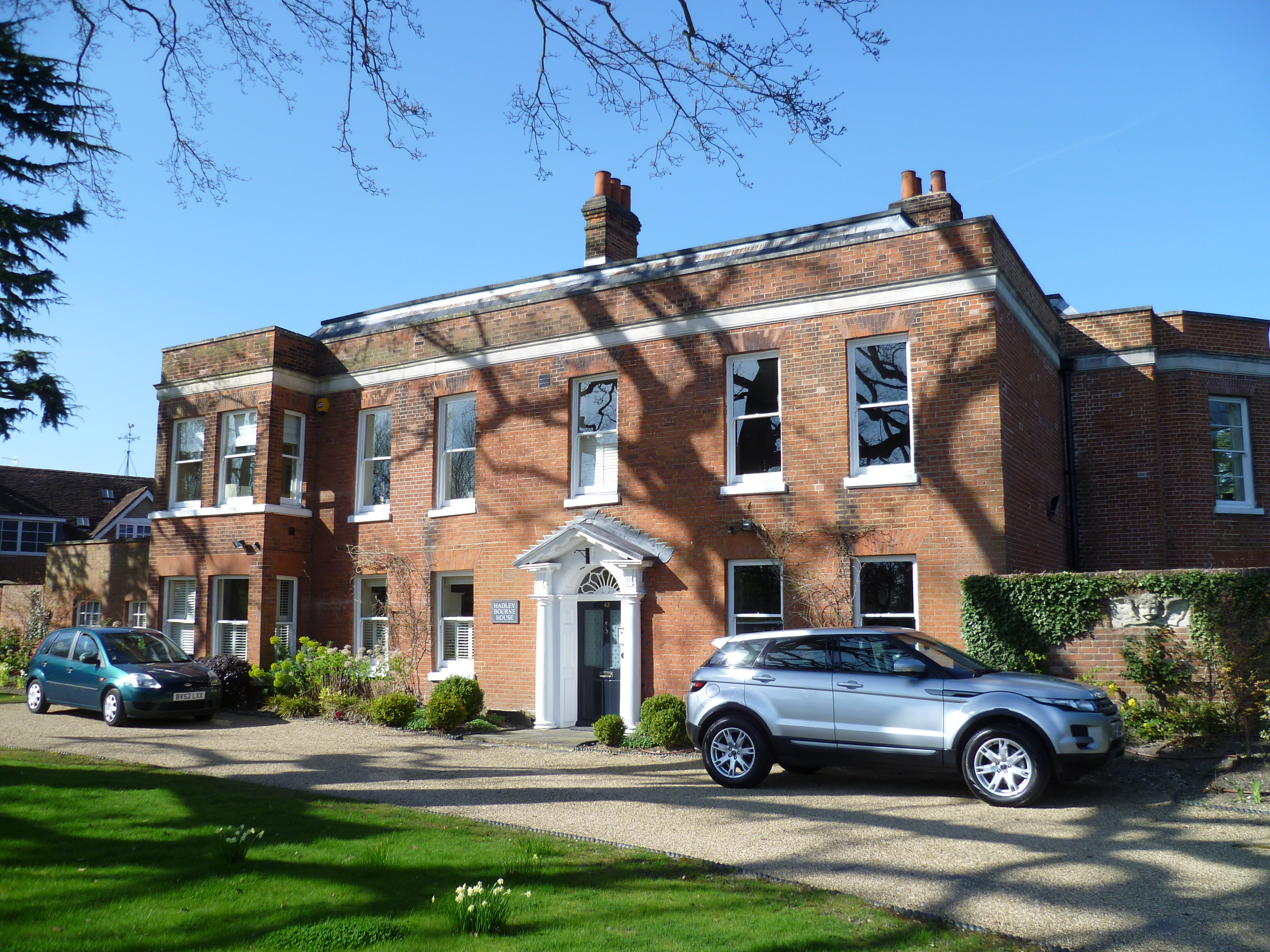 Hadley